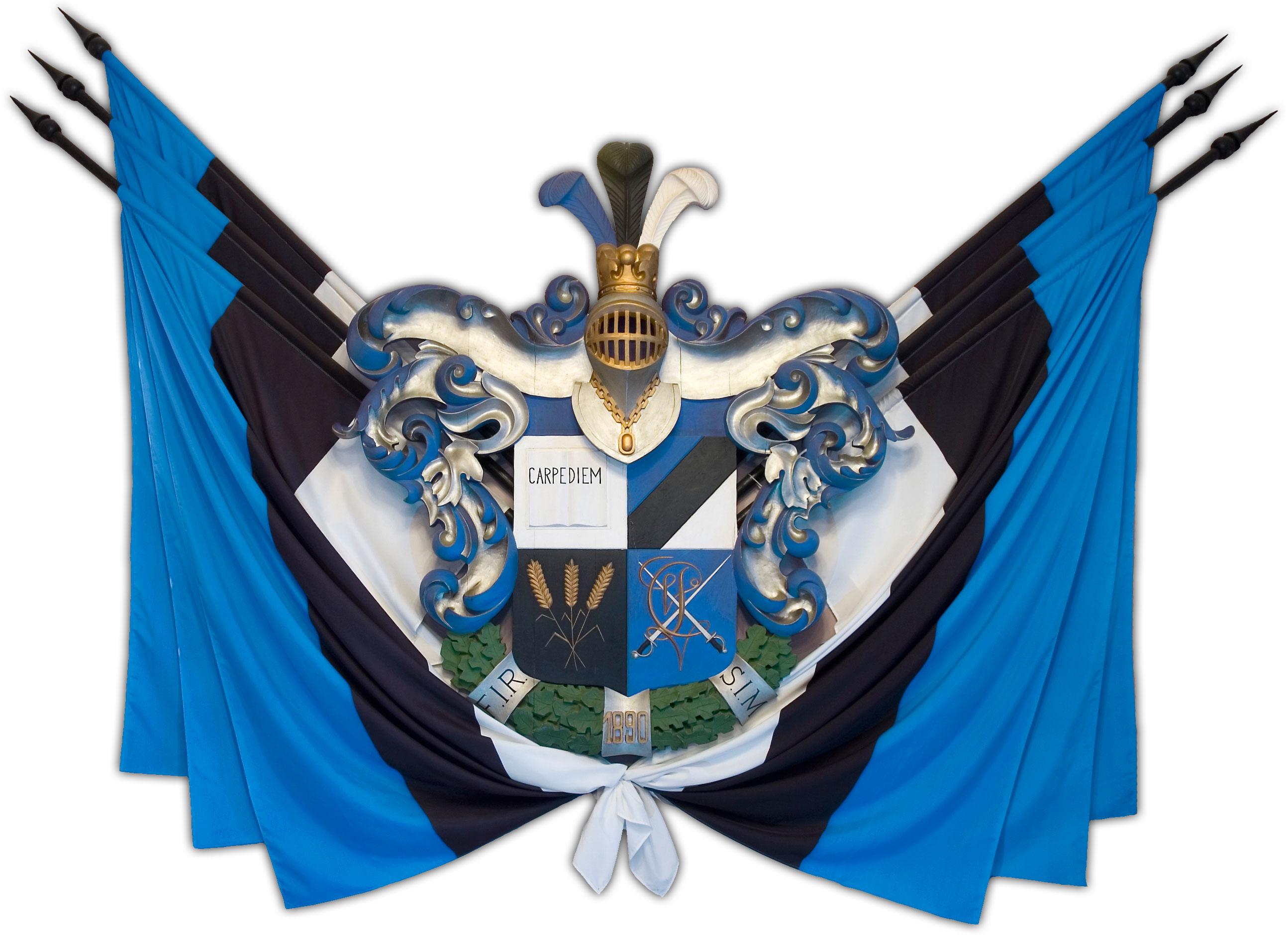 Coat of Arms of the Estonian Students Society